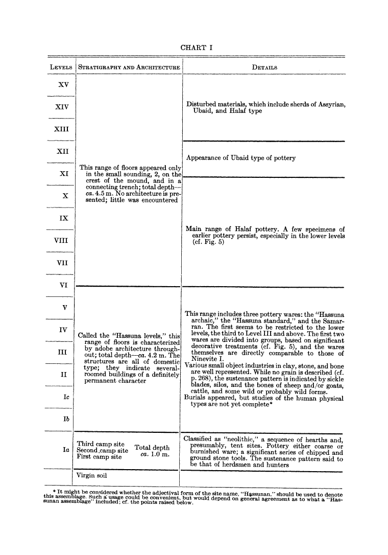 Information on pottery levels found during the excavations at Tel Hassuna